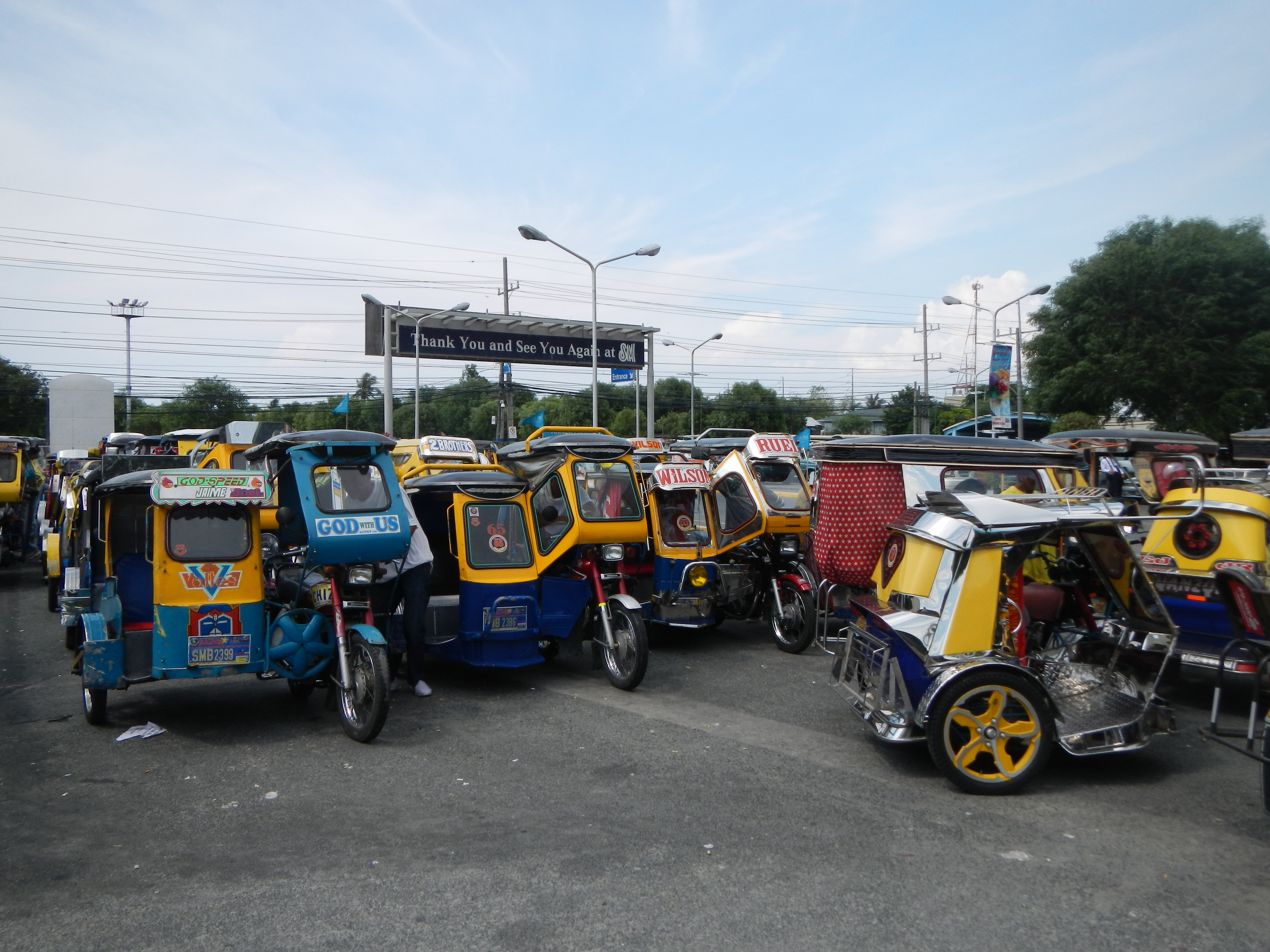 Bacoor[1] The City of Bacoor (Filipino: Lungsod ng Bacoor) is a first class urban component city in the province of Cavite[2] Philippines.Website Coordinates: 14°24'47"N 120°58'3"E [3] This place is situated in Cavite, Region 4, Philippines, its geographical coordinates are 14° 27' 28" North, 120° 56' 33" East and its original name (with diacritics) is Bacoor.[4] It is a lone congressional district of Cavite. A sub-urban area, the city is located approximately 15 kilometers southwest of Manila, on the southeastern shore of Manila Bay, at the northwest portion of the province with an area of 52.4 square kilometers. According to the 2010 census of population conducted by the National Statistics Office, Bacoor has a population of 520,216 making it the second most populous community in the province after Dasmariñas. Brgy. Sineguelasan, Bacoor, Cavite [5] Coordinates: 14°27'34"N 120°55'46"E[6] Day Care Center and Library with playground at Brgy. Sineguelasan [7] St . Michael's Institute SM City Bacoor [8] Coordinates: 14°27'33"N 120°55'55"E - Brgy. Sineguelasan Hall[9] Sineguelasan, Bacoor, Cavite, Calabarzon (Region IV-A) is located in Philippines. Its zip code is 4102.[10]Oyster Farming in Bacoor [N.B. From Bulacan at 11:00 a.m. I took photos of Bacoor, Cavite at 1:54 p.m., the Town Hall, Plaza, Halls of Justice, St. Michael the Archangel heritage Church and the Oysters and Mussels of Bacoor in Brgy. Sineguelasan - finishing at 4:52 p.m.]